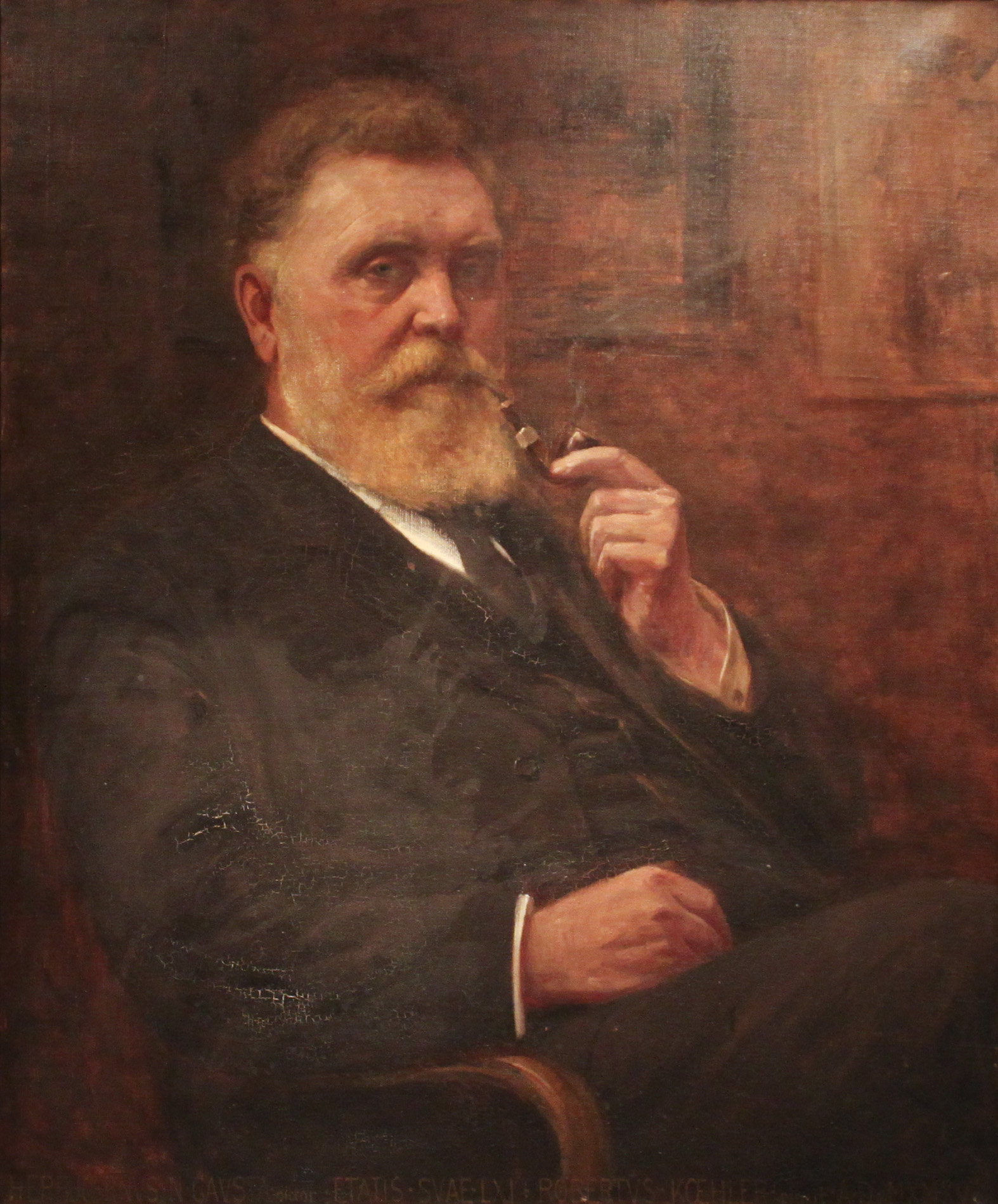 Depicted person: Herbjørn Gausta – Norwegian-American artist